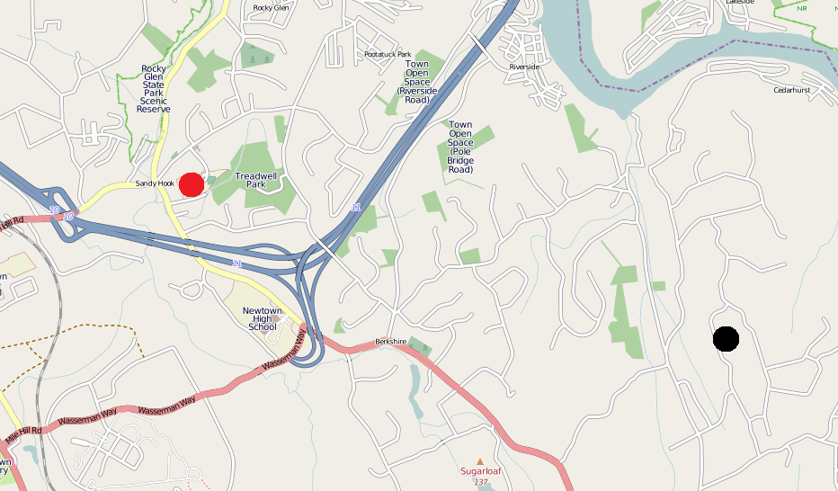 A map showing the location of Sandy Hook Elementary School (in red) and the location of the gunman's home (in black) in Newtown, Connecticut. Created to illustrate the Sandy Hook Elementary School shooting.